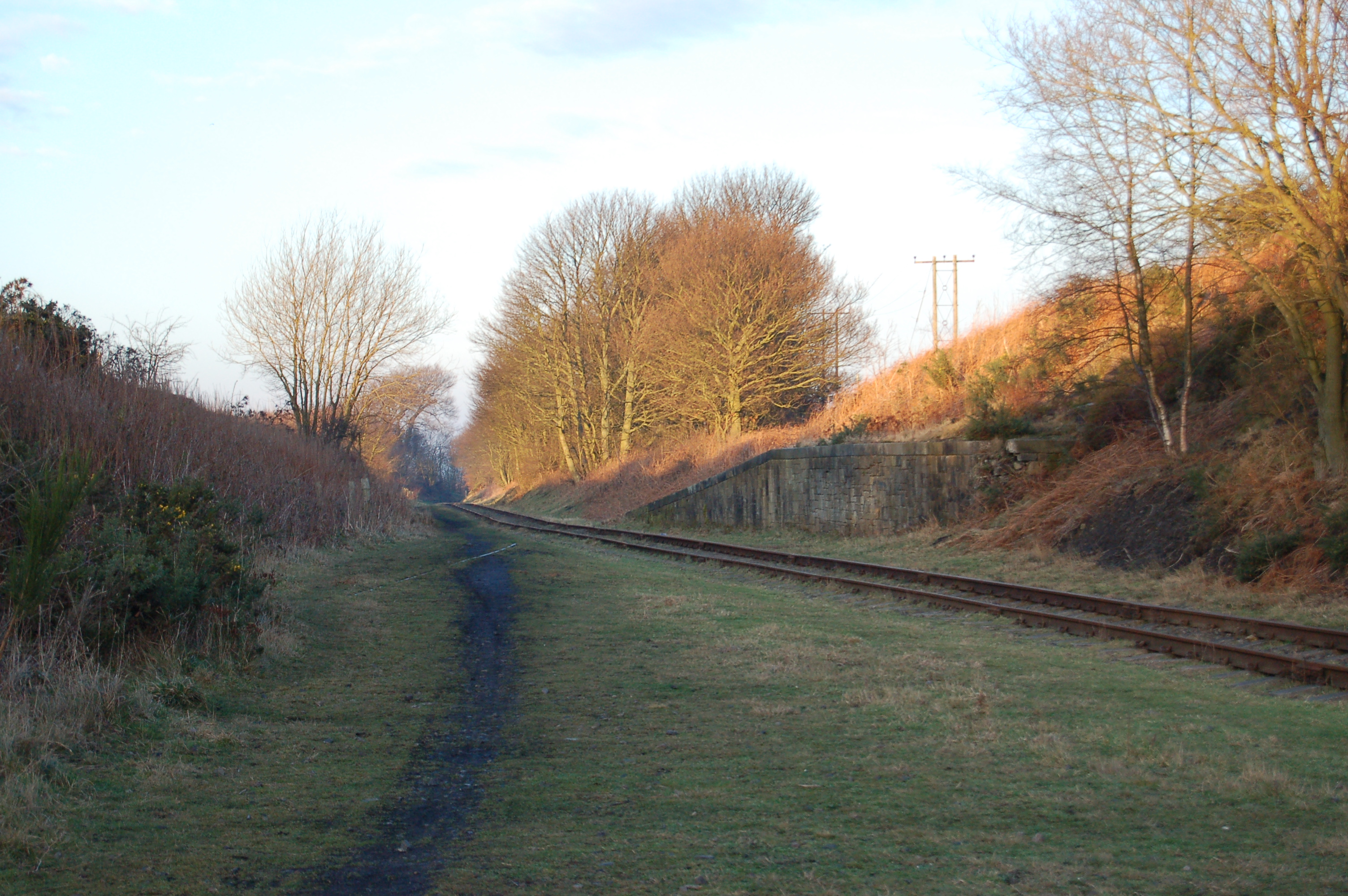 Former coaling stage of Bowes Bridge MPD on the Tanfield Railway.